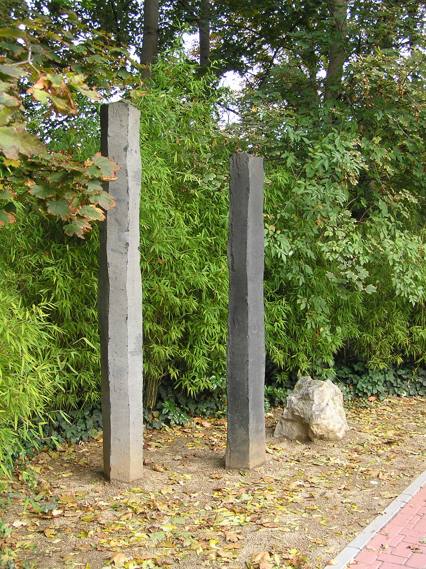 Memorial for the assassination of Deutsche Bank CEO Alfred Herrhausen in 1989, Bad Homburg, Germany. The memorial indicates the position of the car bomb which killed Herrhausen. A 3rd stele on the other side of the road is not shown.